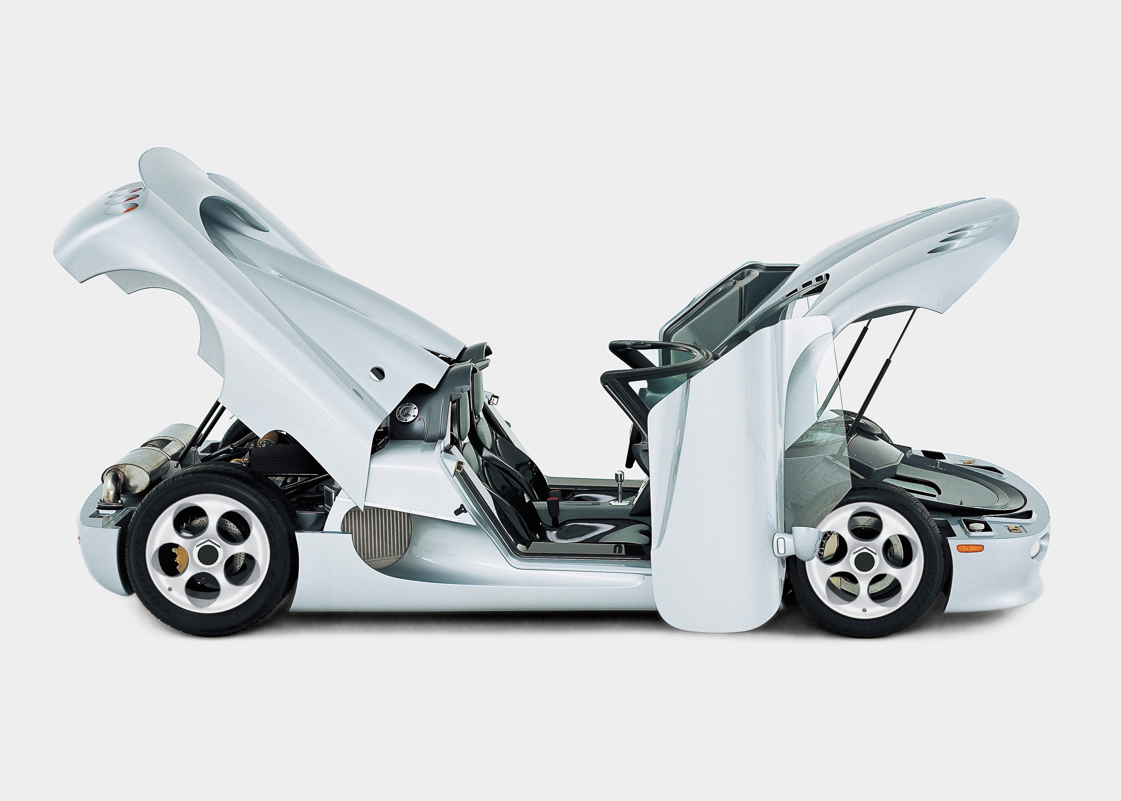 Koenigsegg side